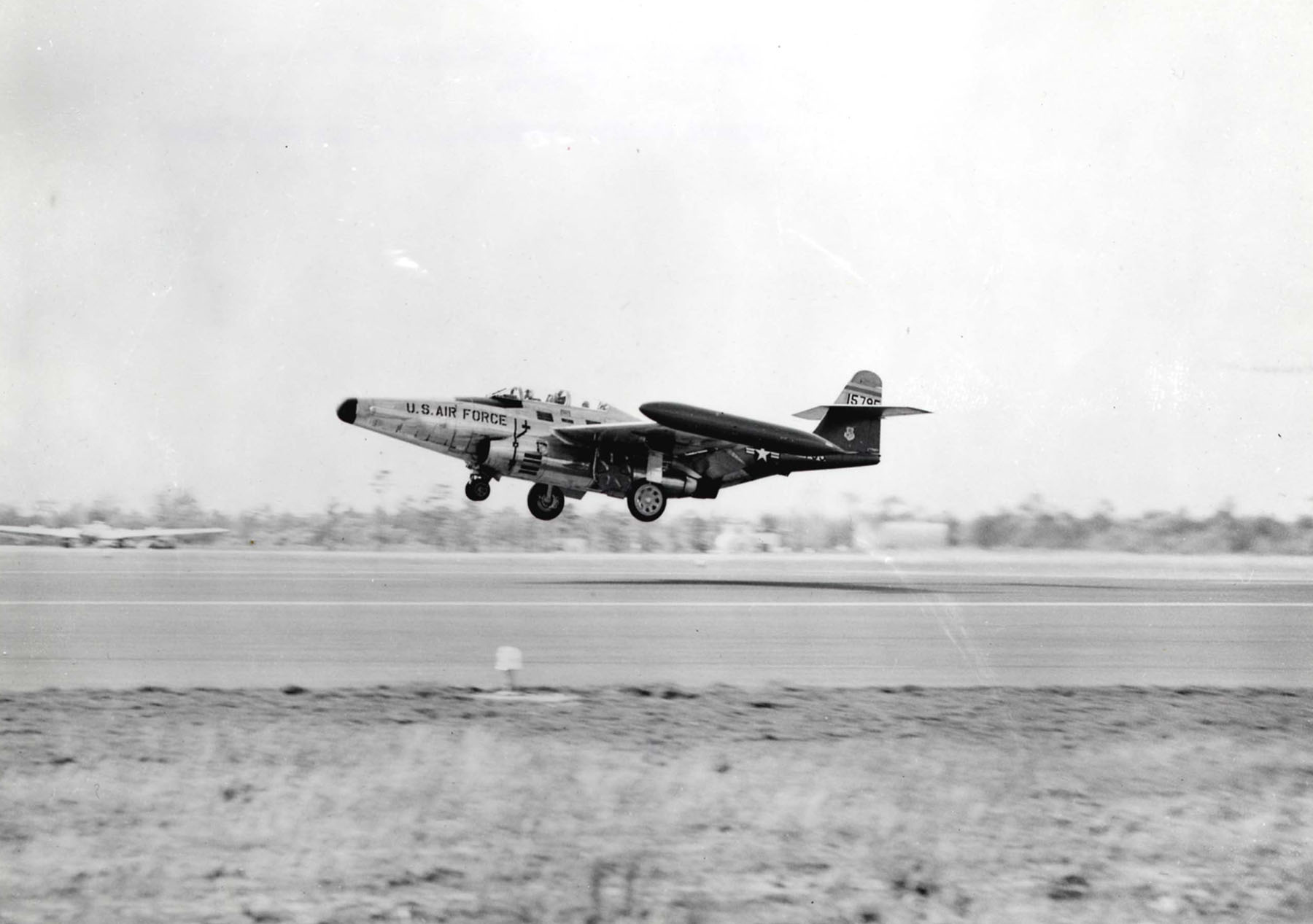 Northrop F-89C (S/N 51-5795) landing at Eglin Air Force Base.